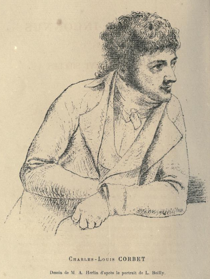 The sculptor Charles-Louis Corbet